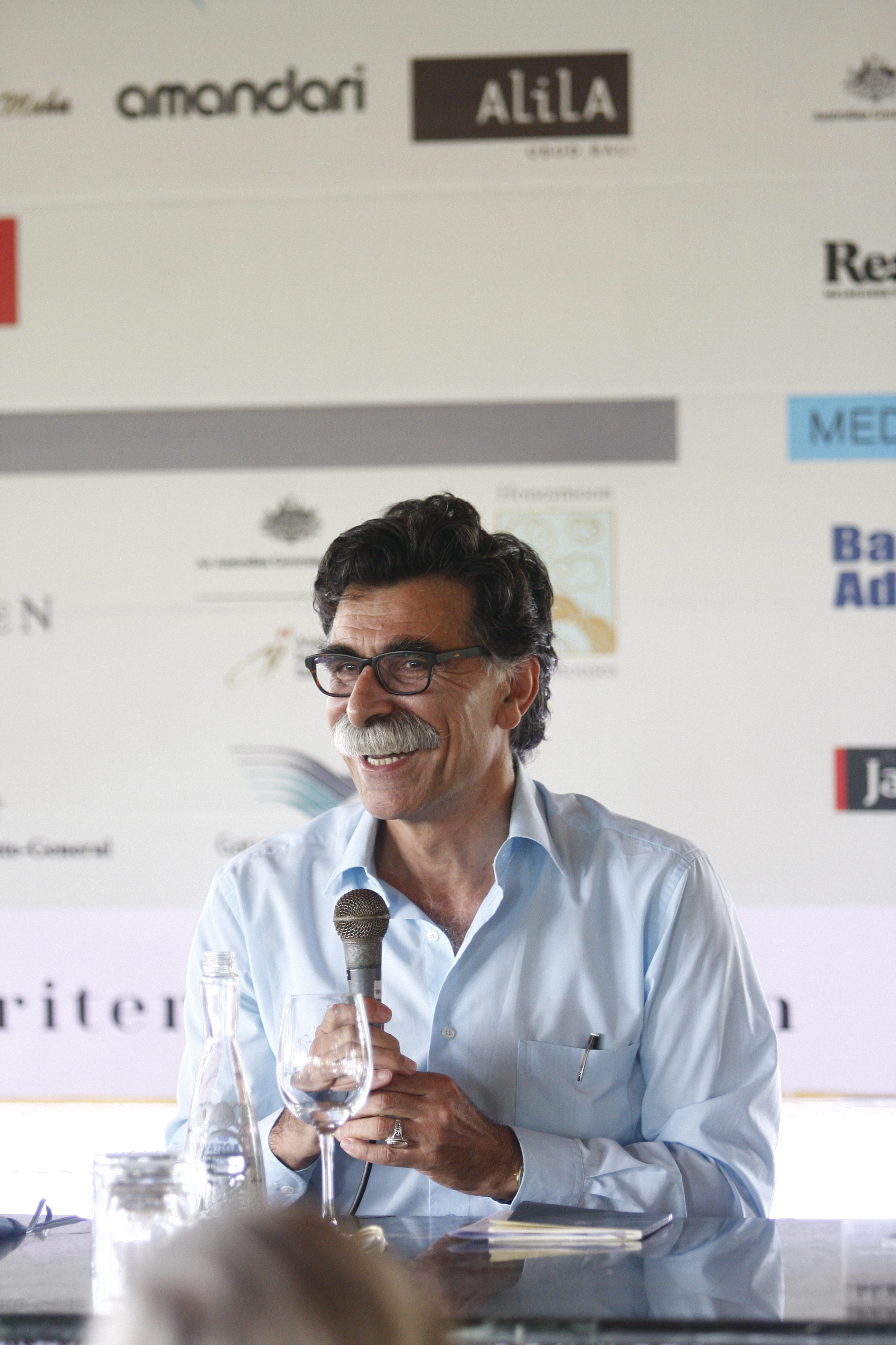 Ubud Writers & Readers Festival 2012. Image credit Stanny Angga.